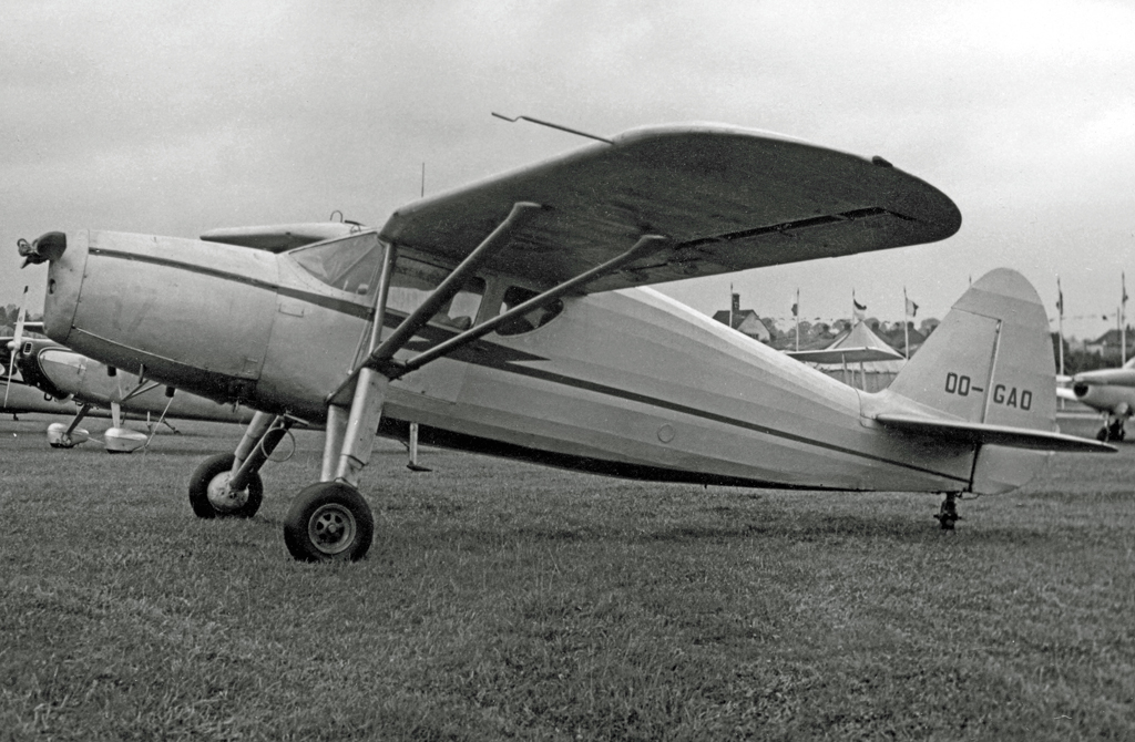 Fairchild UC-61K (F-24R) Argus III OO-GAO at White Waltham airfield, Berkshire, in 1954